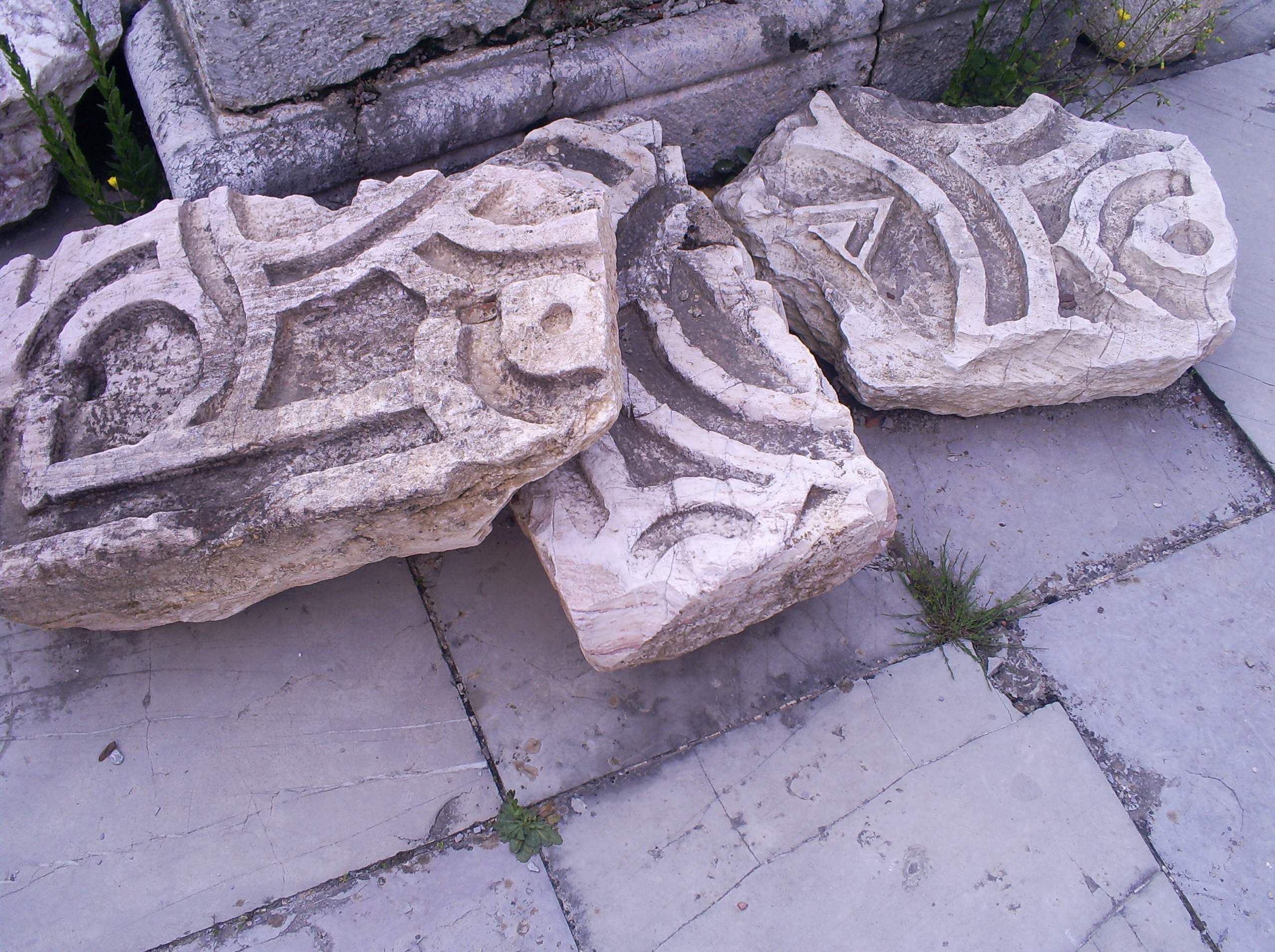 Parts of sculptures in Sveti Arhangeli near Prizren, Serbia.